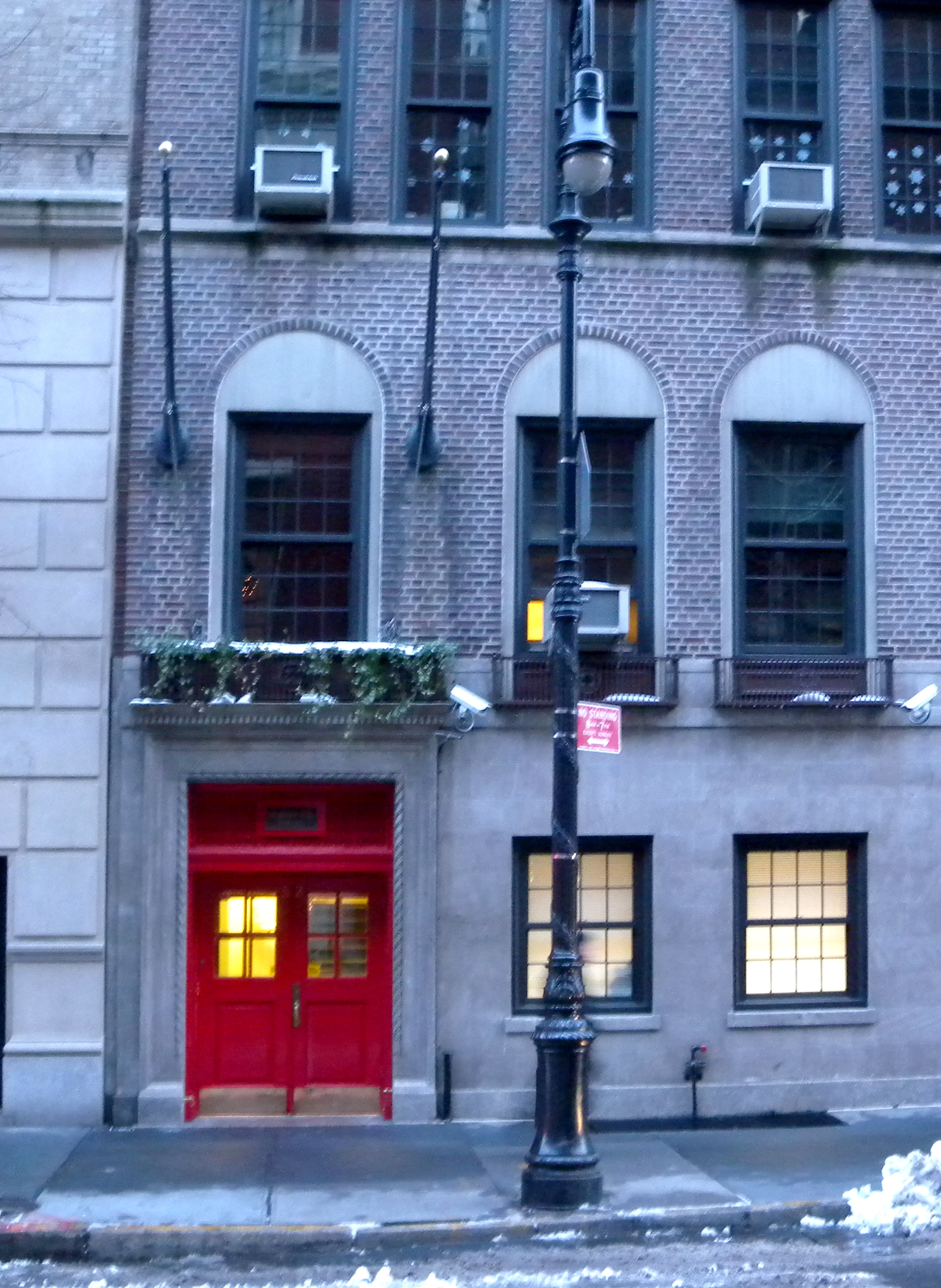 Looking south across 62nd Street at Browning School on a cloudy evening.